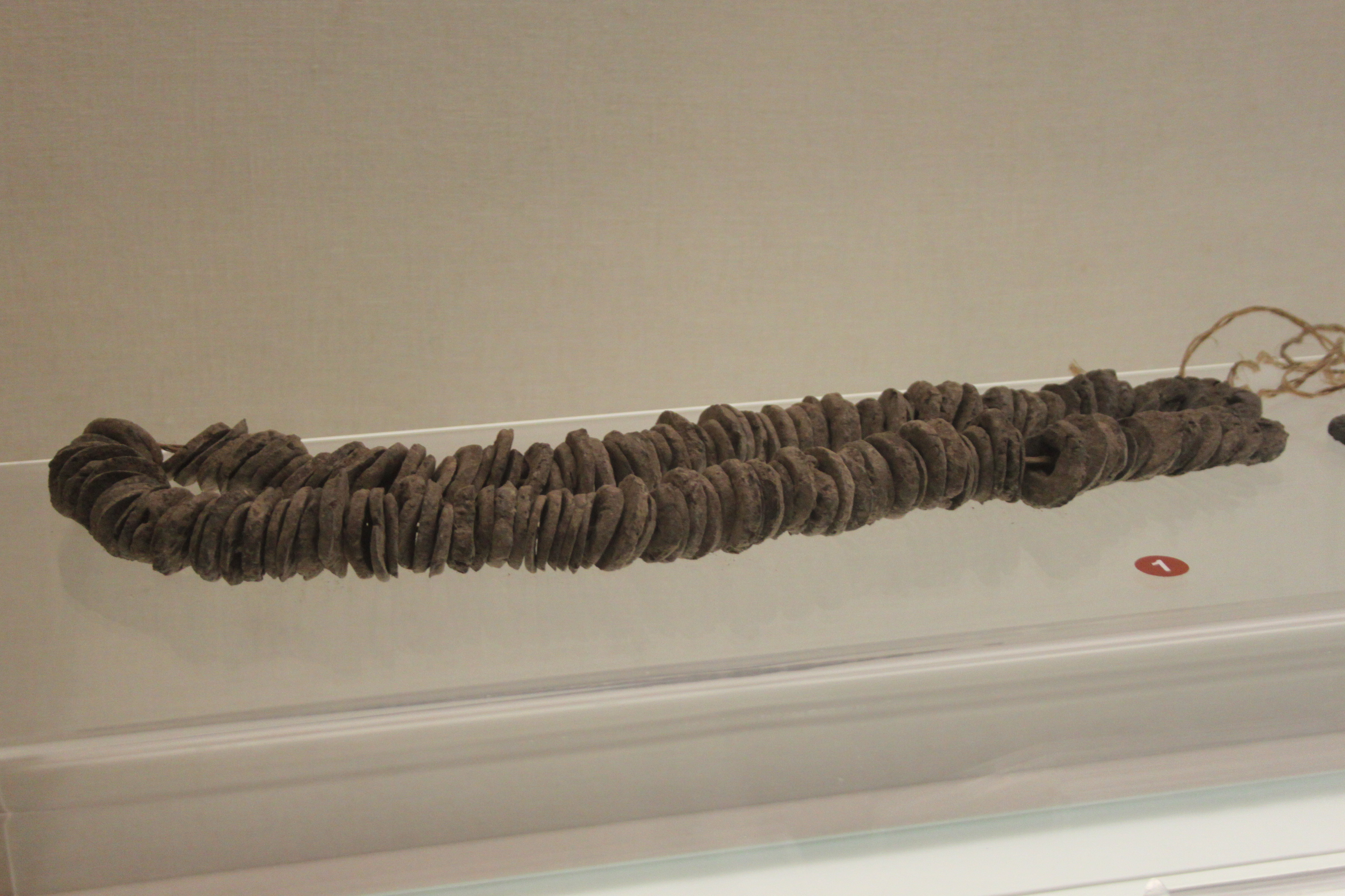 Mawangdui Han Tombs, Changsha, Hunan. Complete indexed photo collection at .